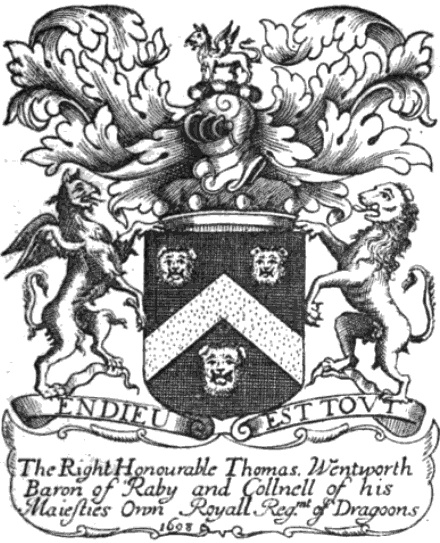 Bookplate of Thomas Wentworth, 1st Earl of Strafford. Blazon: Sable(?) a chevron Or between three leopard's faces of the last.